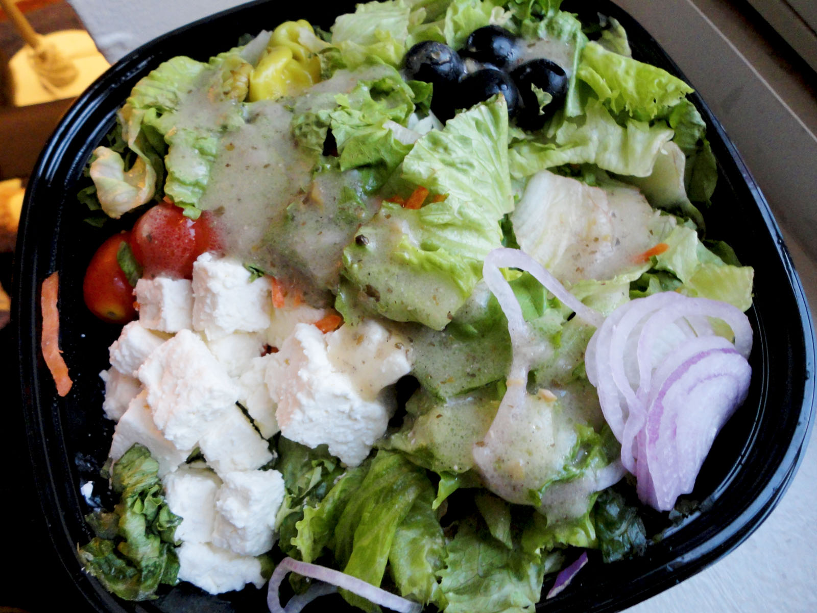 A supermarket-sold Greek salad with dressing.